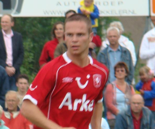 Image of the FC Twente-player Ramon Zomer